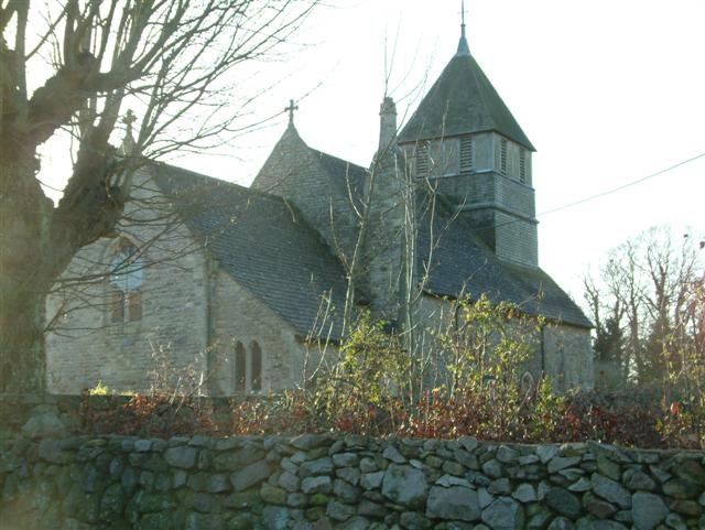 Church of St Mary Magdalene, Winterbourne Monkton.